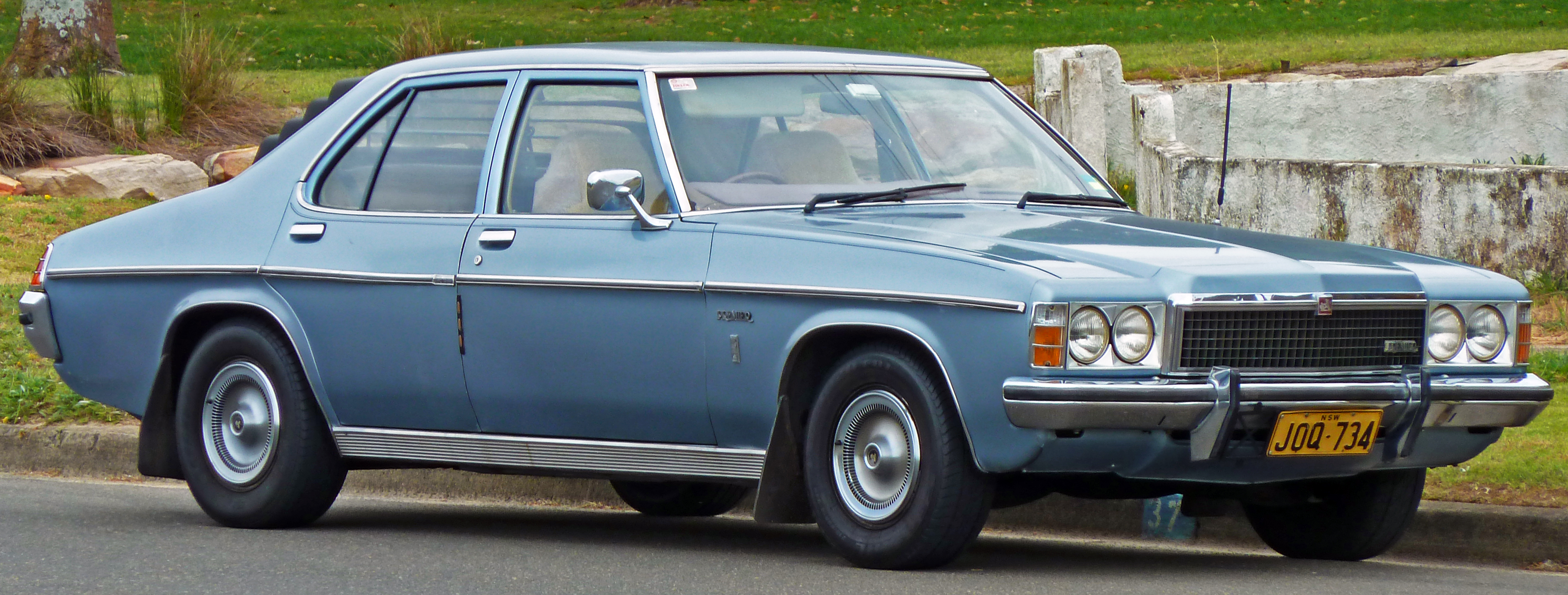 1977–1980 Holden HZ Premier sedan. Photographed in Sandringham, New South Wales, Australia.